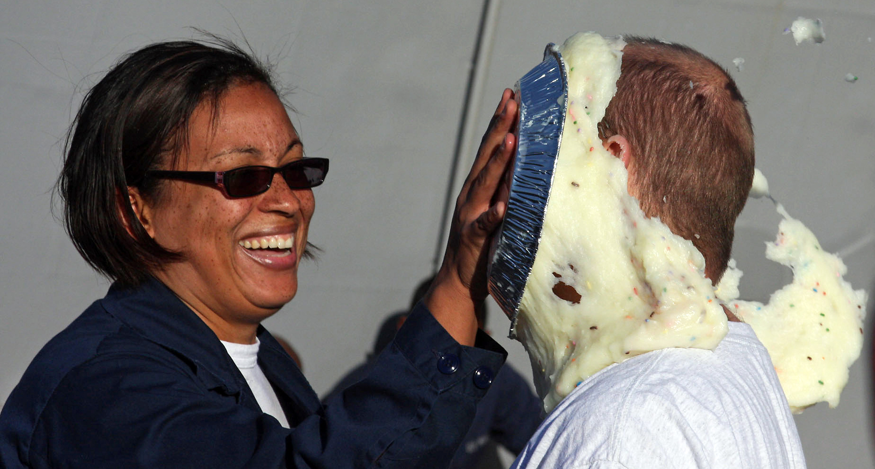 MIDDLE EAST (Feb. 10, 2008) Fire Controlman 1st Class Natalie Stein throws a pie at her boss, Chief Fire Controlman Scott Fearnow. The "pie-in-the-face" event was part of a celebration held by Sailors aboard the guided-missile destroyer USS Hopper (DDG 70) to mark the halfway point of their deployment. Hopper is deployed to the 5th Fleet area of responsibility to maintain a naval and air presence in the region to deter destabilizing activities and safeguard vital regional links to the global economy. U.S. Navy photo by Master Chief Fire Controlman William Sylves (Released)